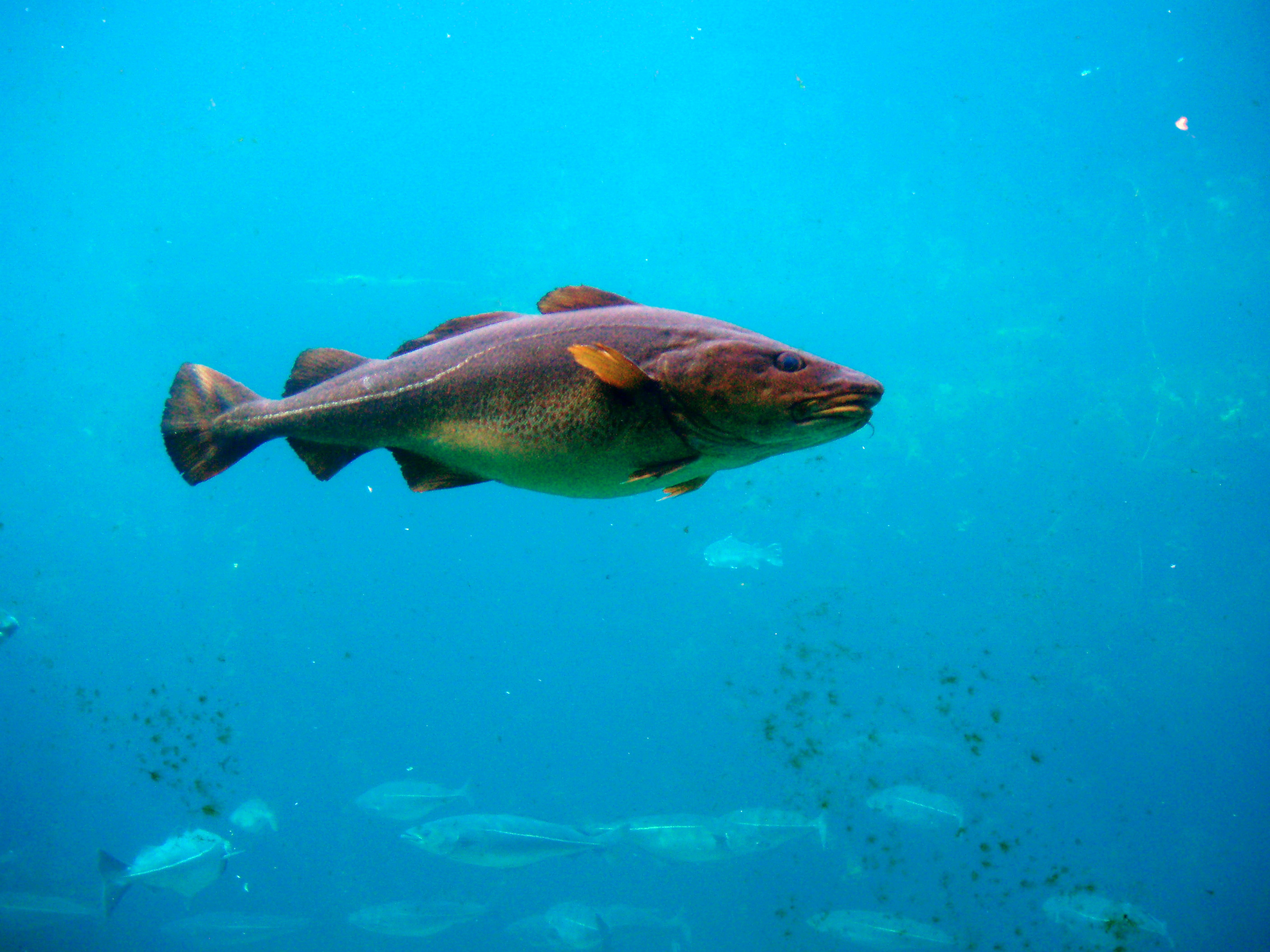 Cod, Gadus morhua. Picture taken, thru glas, at Atlanterhavsparken, Ålesund, Norway.